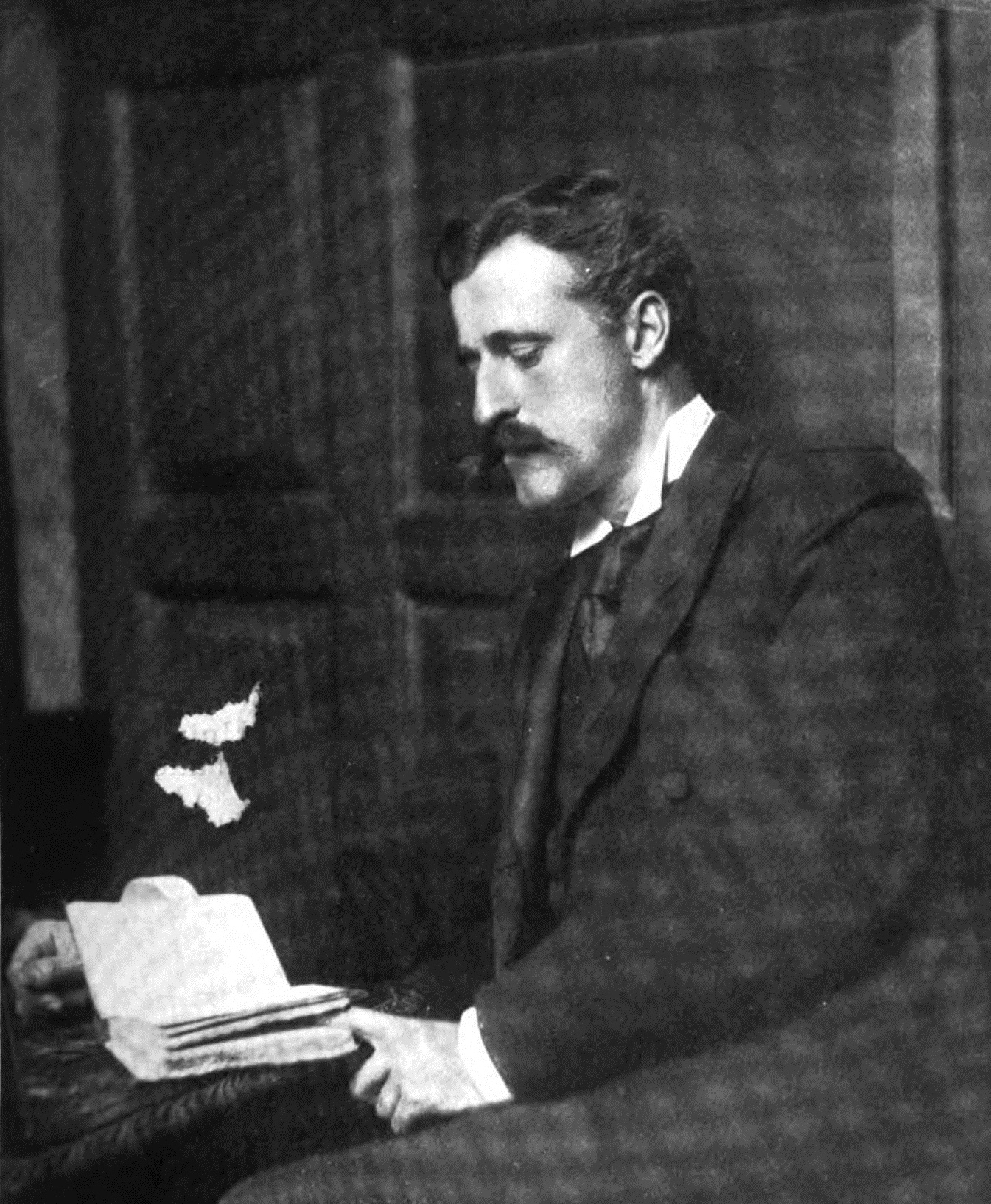 William Watson